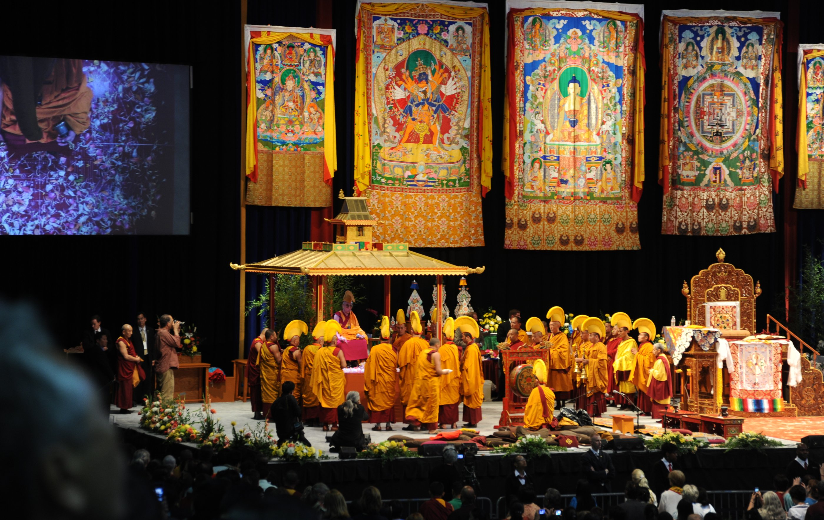 His Holiness the 14th Dalai Lama praying in the pavilion, closing the Kalachakra mandala and offering flowers, monks, thangkas, throne, photographer, security officers, sponsors, Verizon Center, Washington D.C., USA